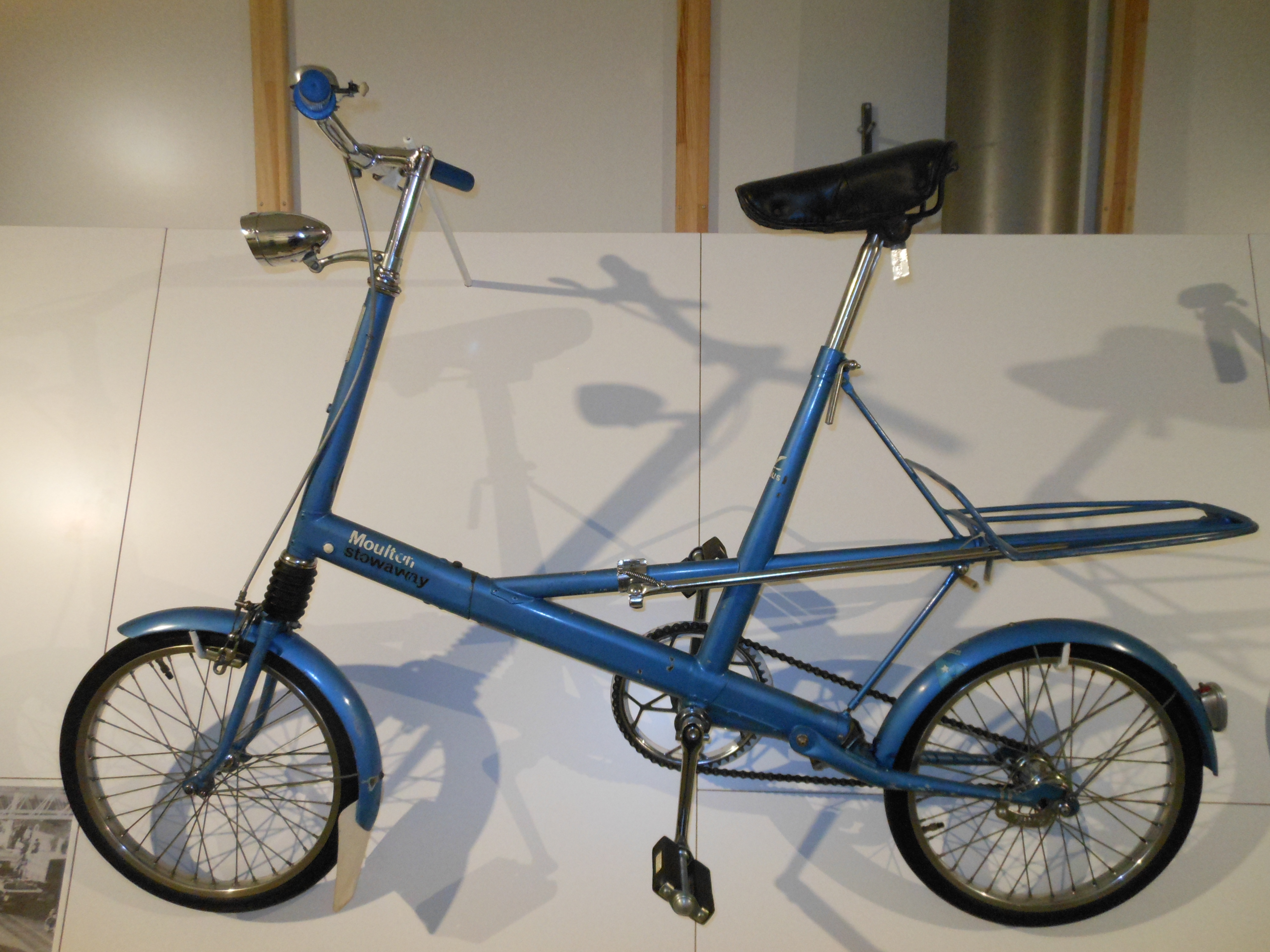 A bicycle from 1967, designed and produced by Alexander Eric Moulton.